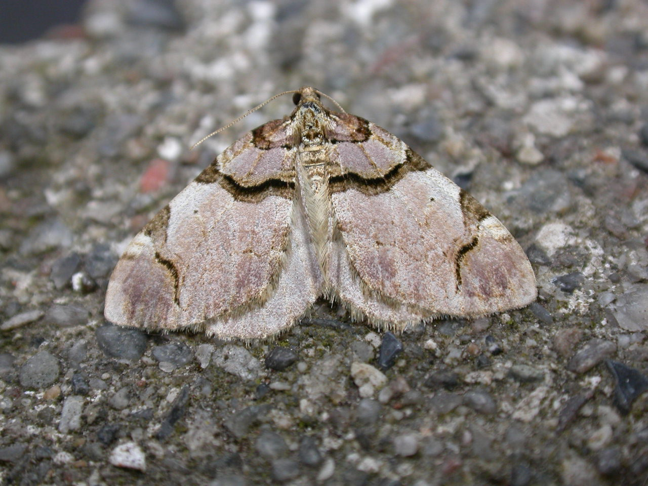 Anticlea derivata, to MV light, Hellerup, Denmark, 13 May 2003